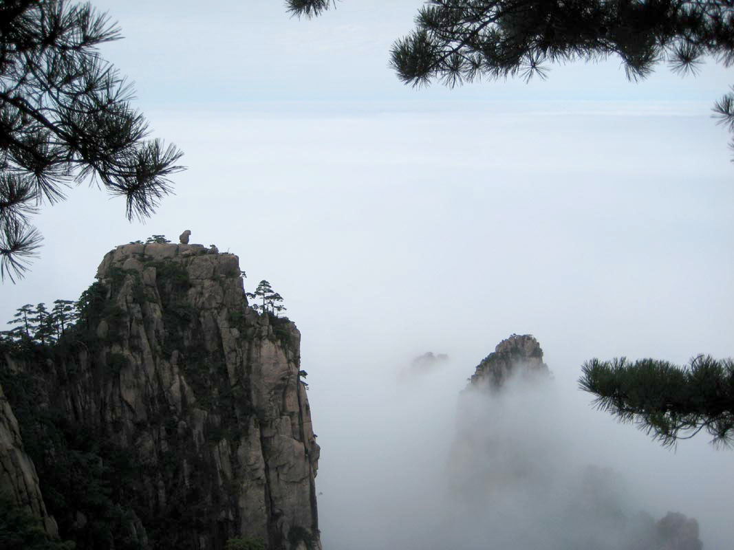 The "Monkey Gazing At The Sea of cloud", Huang Shan, China